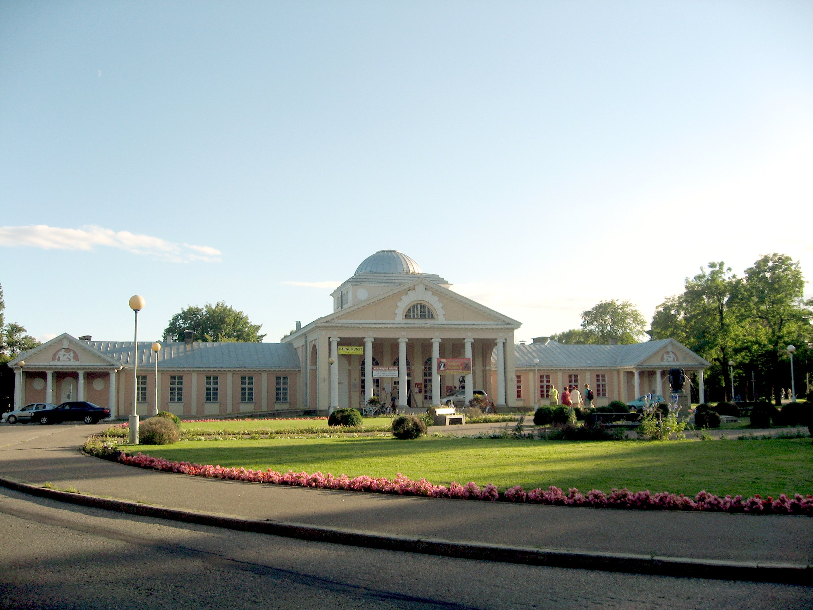 The Spa in Pärnu, Estonia